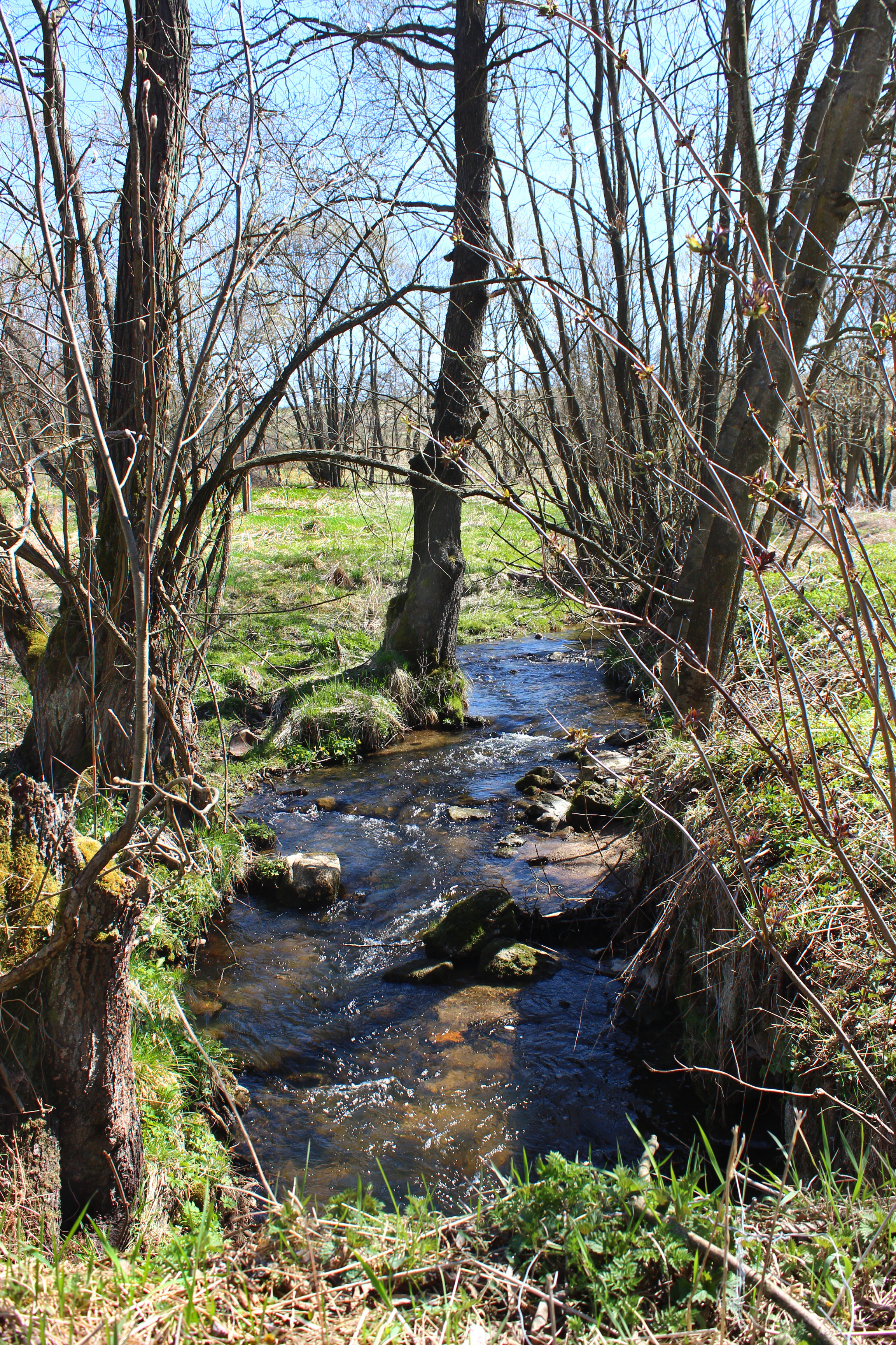 Lomnický Creek south of Horní Tašovice, part of Stružná village, Czech Republic